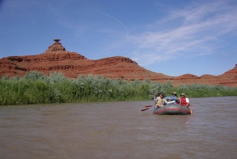 San Juan River Utah Rafting Mexican Hat in Background (June 2006)